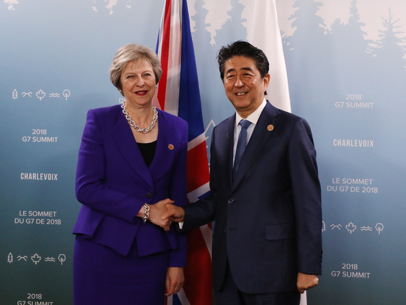 Prime Minister of Japan Shinzō Abe and Prime Minister of the United Kingdom Theresa May at the 44th G7 summit.